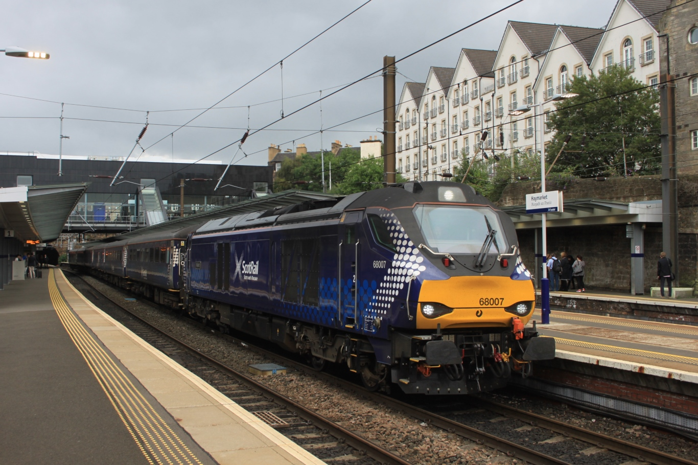 Direct Rail Services' 68007 brings the evening loco-hauled Fife Circle commuter train into Haymarket station in Edinburgh. It will make light work of the four Mark 2 coaches.